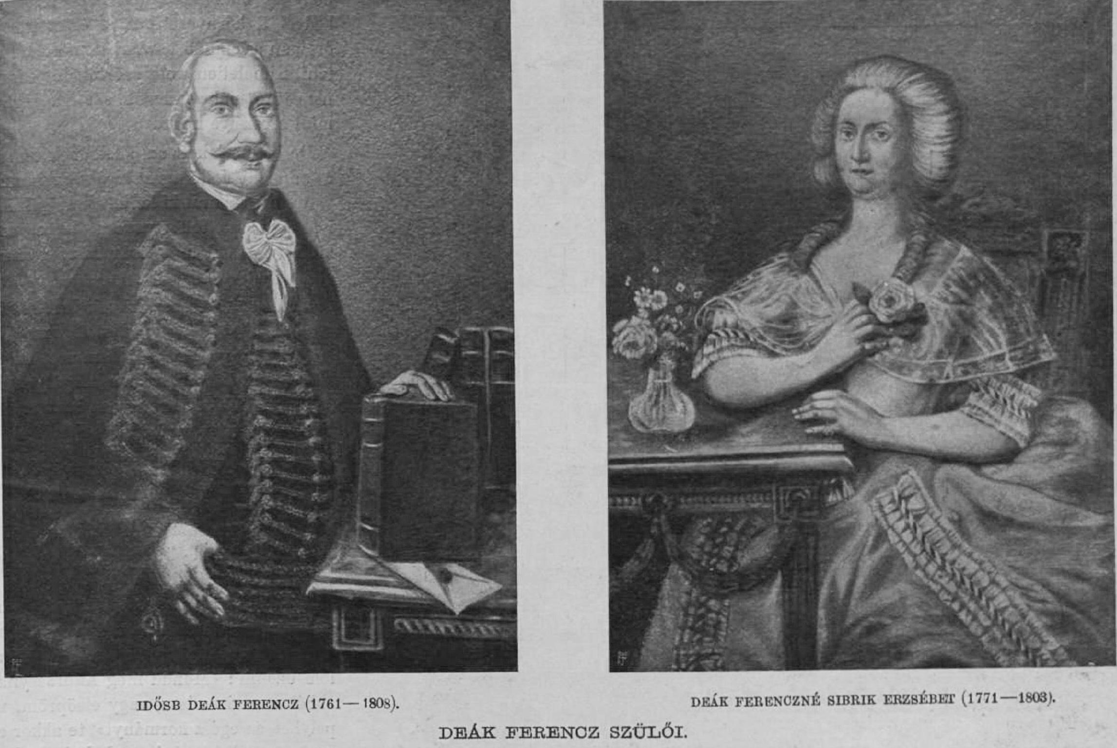 Ferenc Deák and Erzsébet Sibrik.